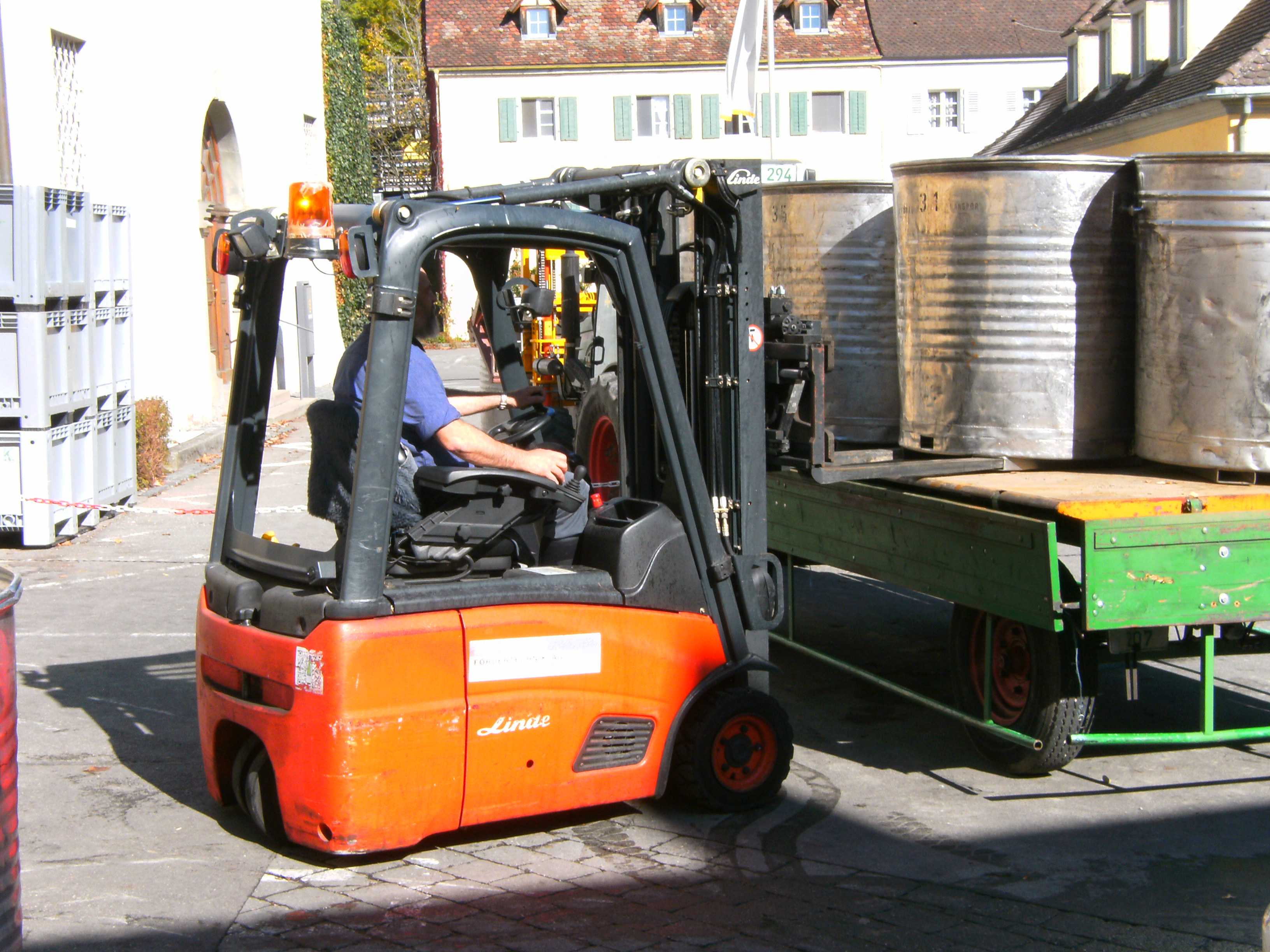 Meersburg, Germany, upper town, Seminarstraße: Harvested grapes to be pressed in the wine press of Staatsweingut Meersburg (vinegrowing estate). Stage 2.